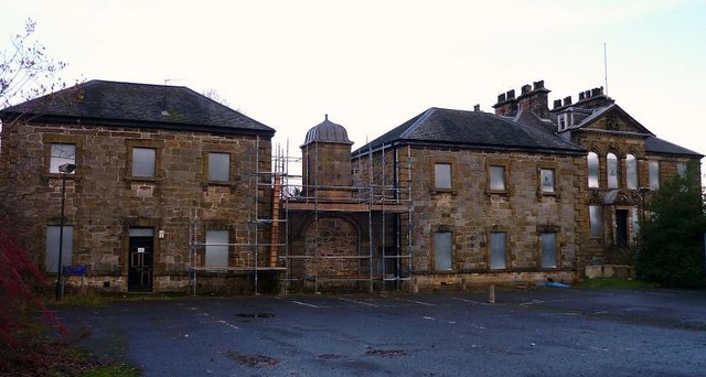 Cumbernauld House - West Pavilions Cumbernauld House was completed in 1731 and was designed by William Adam. The house was built on the site of the 14th century Cumbernauld Castle which was destroyed by Oliver Cromwell’s troops in 1651. The main building consists of the main rectangular block of which two pavilions are attached to the west side. These pavilions were originally separated by an archway that lead to a rear courtyard, this archway has since been blocked up. Originally William Adam intended to build two identical pavilions on both sides of the main building; however the pavilions to the east side of the main building where never built.